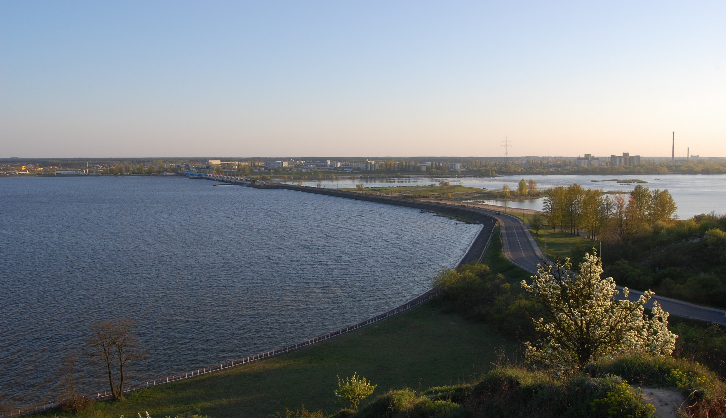 Włocławek Dam